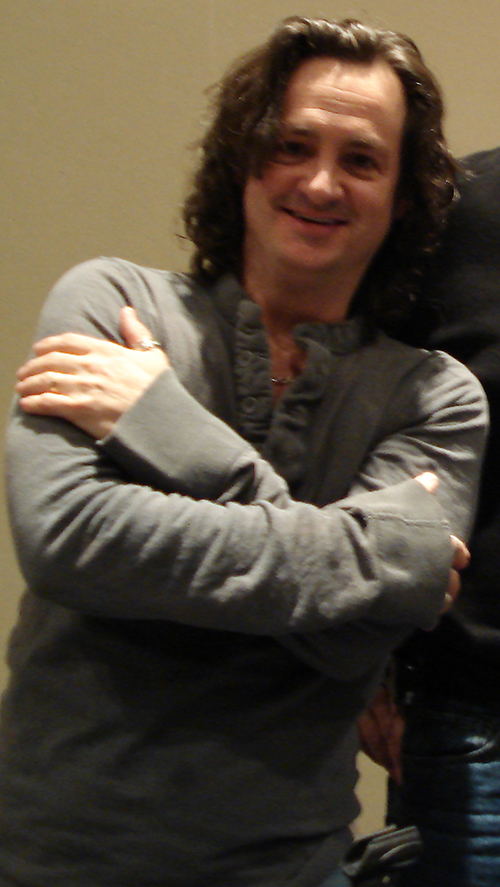 Jeff Smith at the 2007 New York Comic-Con. Copyright 2007 Jeffrey O. Gustafson - released under the GFDL and CC-BY-SA-2.0. Cropped from Image:Smith JMS BKV.jpg, also copyright Jeffrey O. Gustafson under GFDL/CC-BY-SA-2.0.